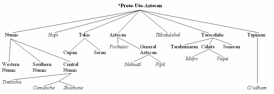 Family tree diagram created in Microsoft Word of some of the sub-families and languages of the Uto-Aztecan family. Not all the branches of the family or all of the languages are shown--I just didn't have enough room. Sources on the classification and subgrouping were the Wikipedia page Uto-Aztecan languages and (more importantly) Mithun, Marianne (1999). The Languages of Native North America. Cambridge: Cambridge University Press. Whimemsz 18:10, 3 January 2006 (UTC)